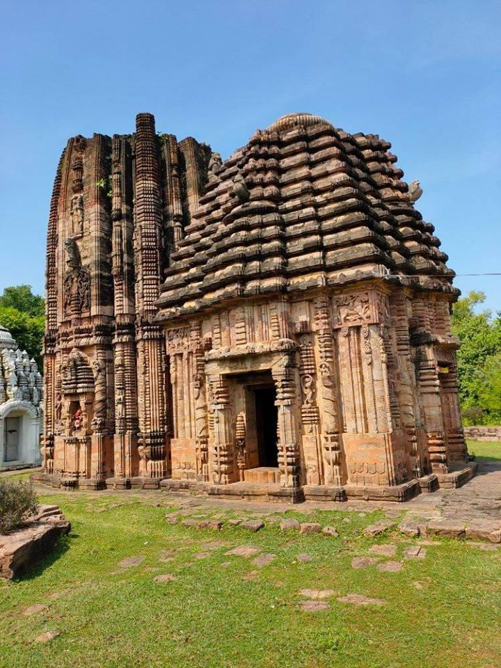 Ancient site at Baneswaranasi